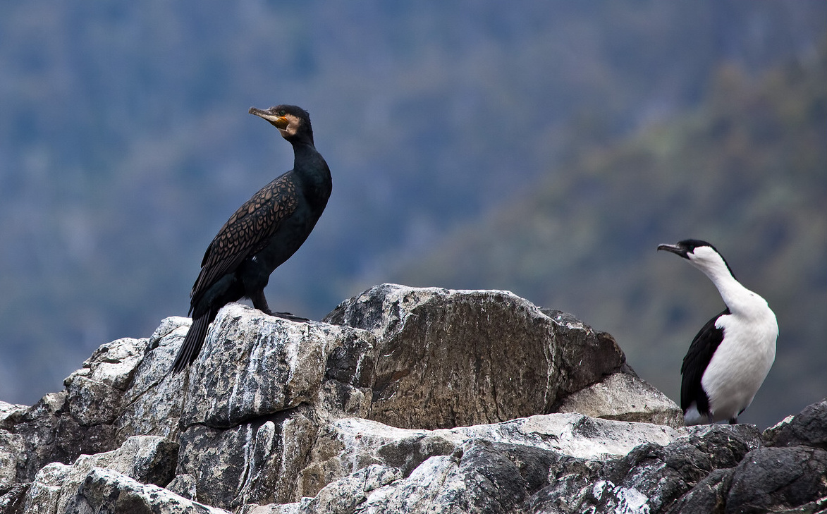 Great Cormorant (left) and Black-faced Cormorant (right) in Tasmania. Original caption: “2008-12-27 12:10 Tasmania ” — removed watermark